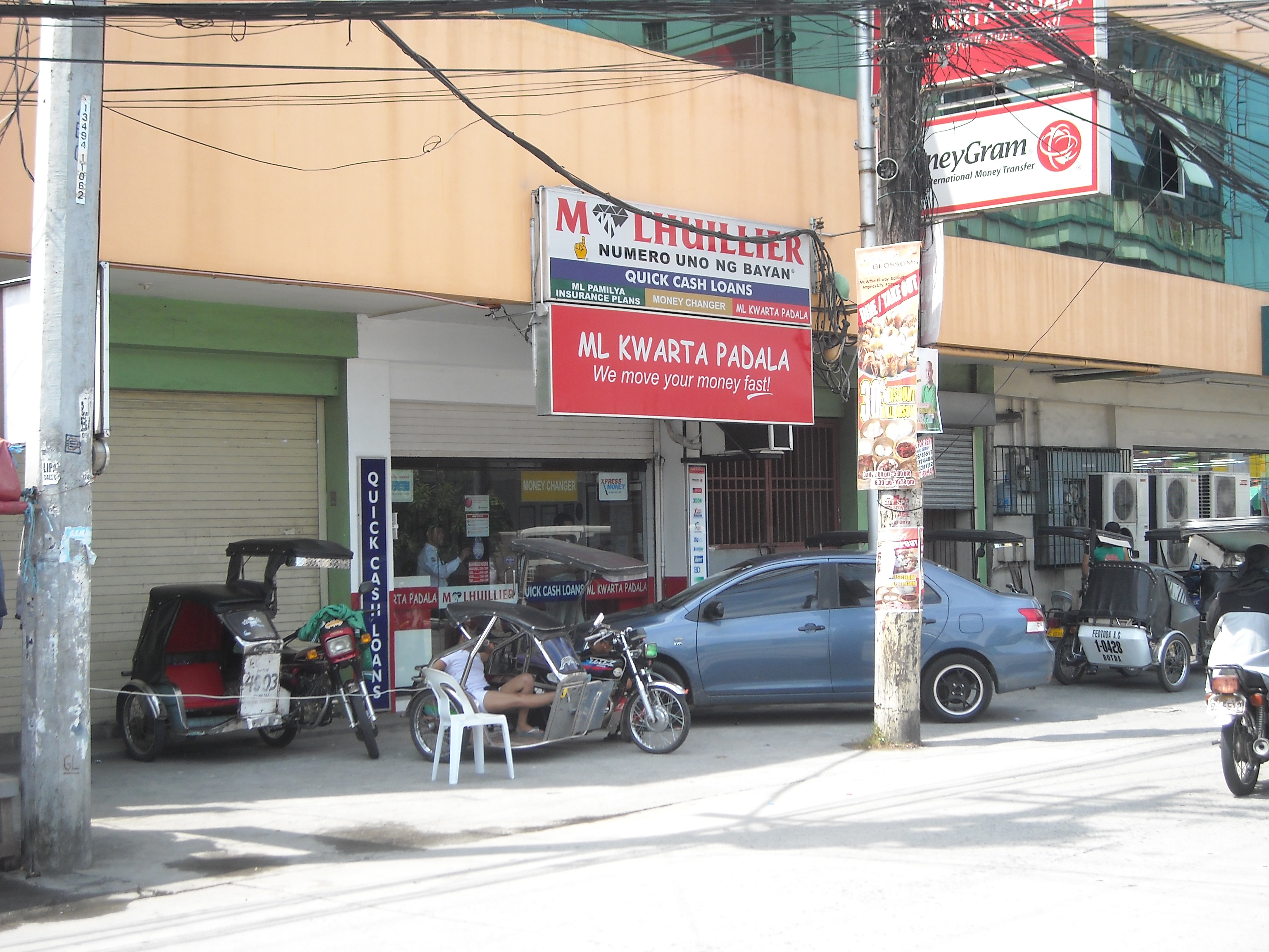 A typical M Lhuillier shop in Angeles City. Services usually involve finances.